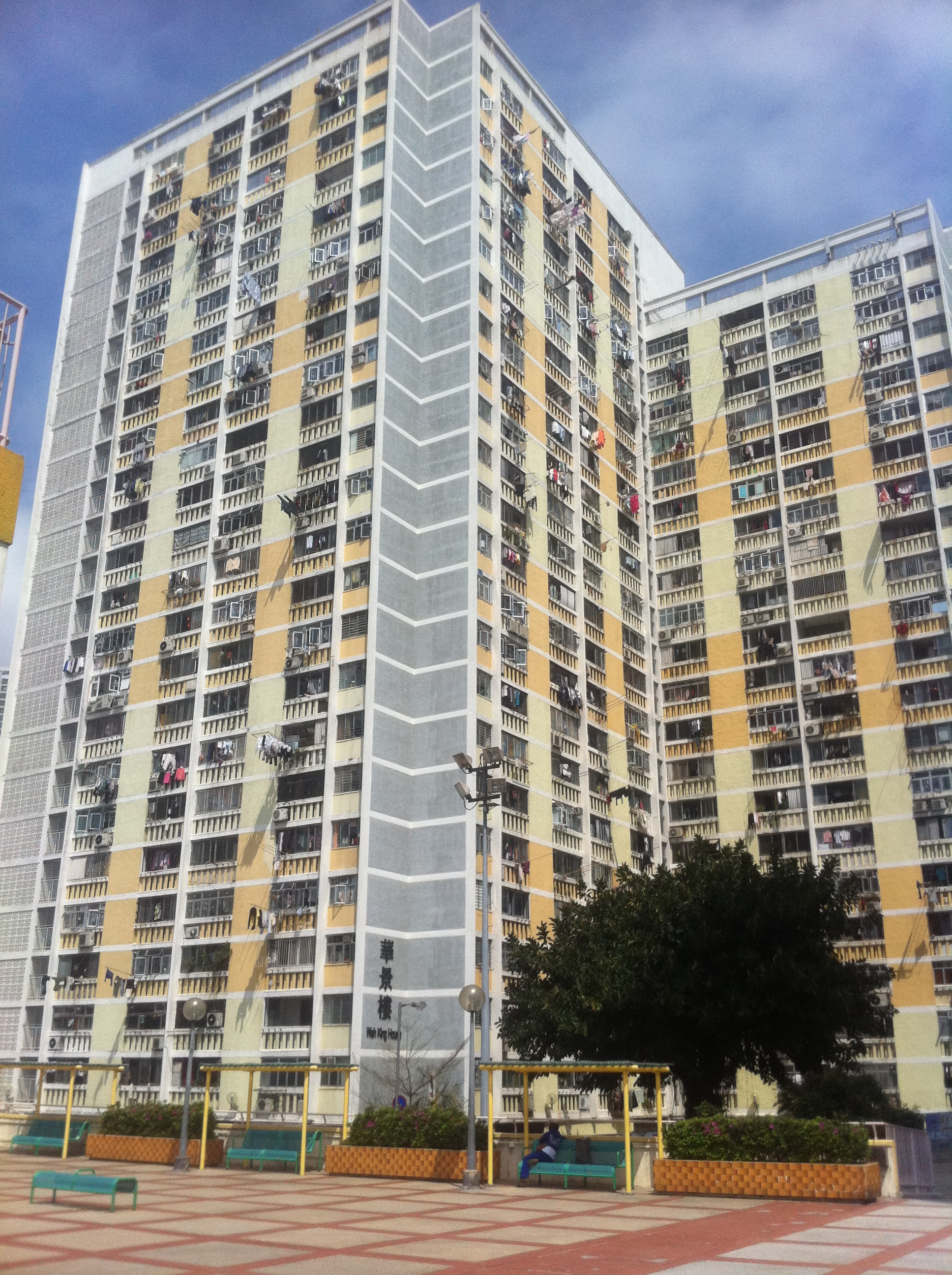 華富邨 Wah Fu Estate, Hong Kong